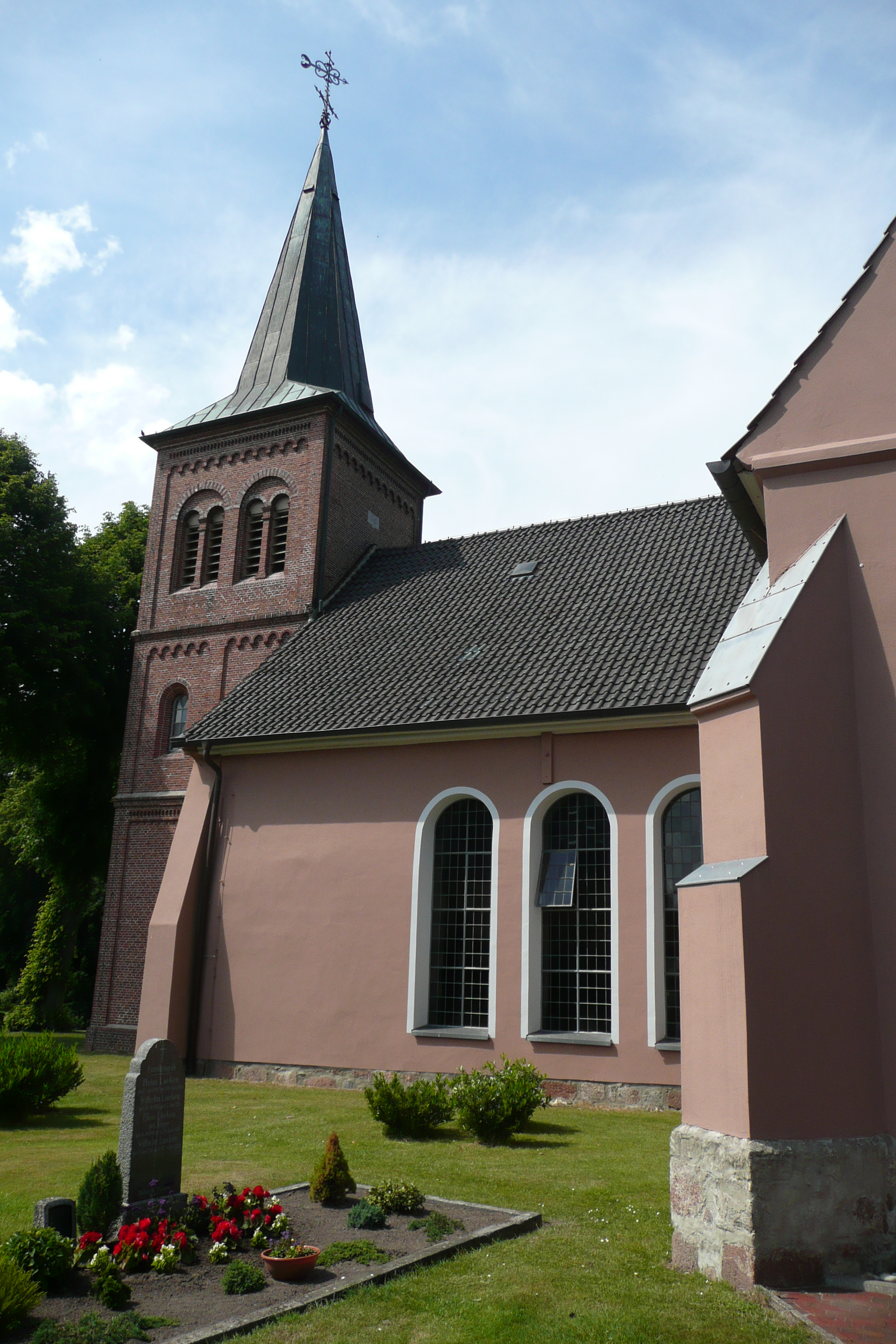 Church in Großenkneten, Oldenburg county